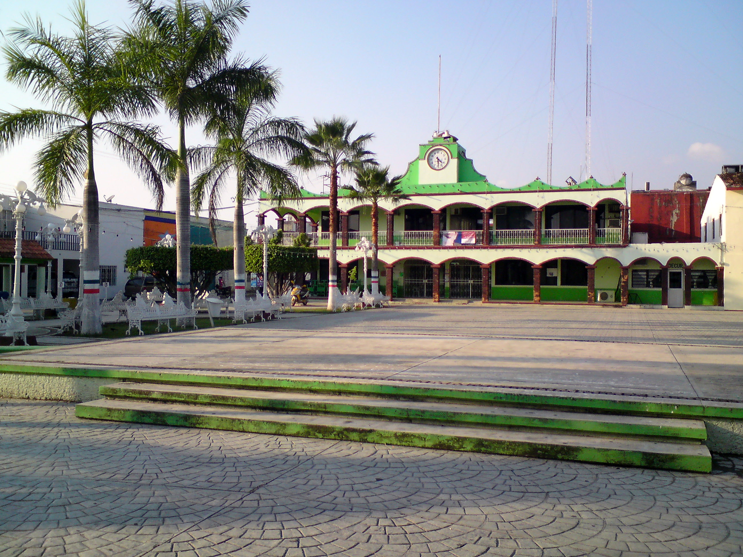 Meeting space and rest of the locals, packed with walkers and gardens with ornamental plants, benches, lamps and a central kiosk. The park marks the central area of this city of the Usumacinta river and are located around important buildings including City Hall, the house of culture, the Archaeological Museum Dr. José Gómez Panaco, the temple of San Marcos and old houses with their typical corridor and a gabled roof tile French.